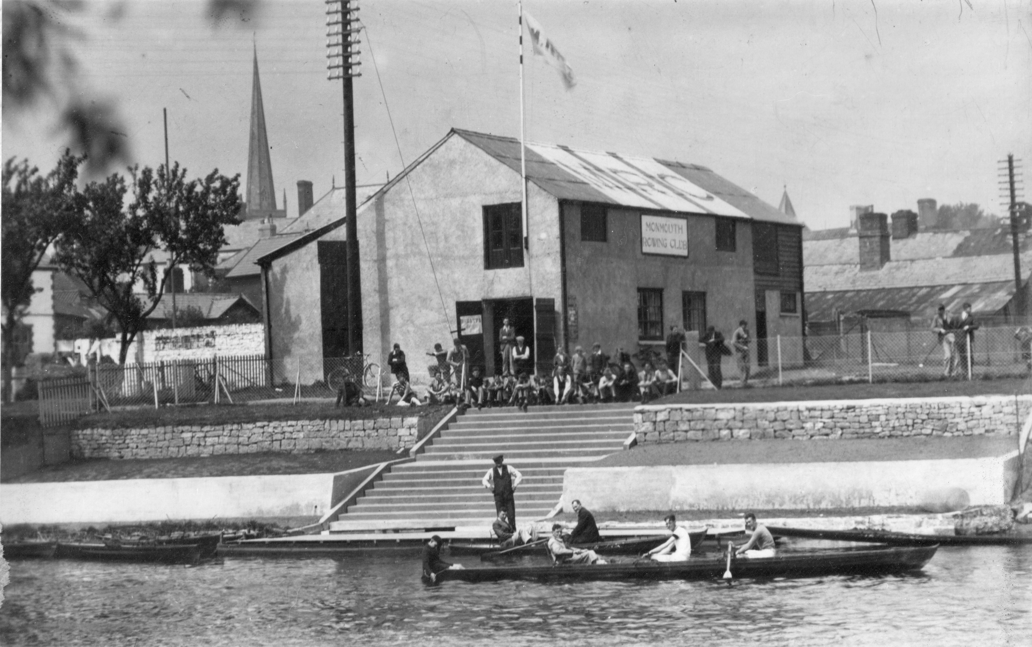 en:Monmouth Rowing Club|Monmouth Rowing Club on the banks of the Wye c.1930s.Unknown clwb rhwyfo trefynwy ar lannau'r afon gwy. c.1930s